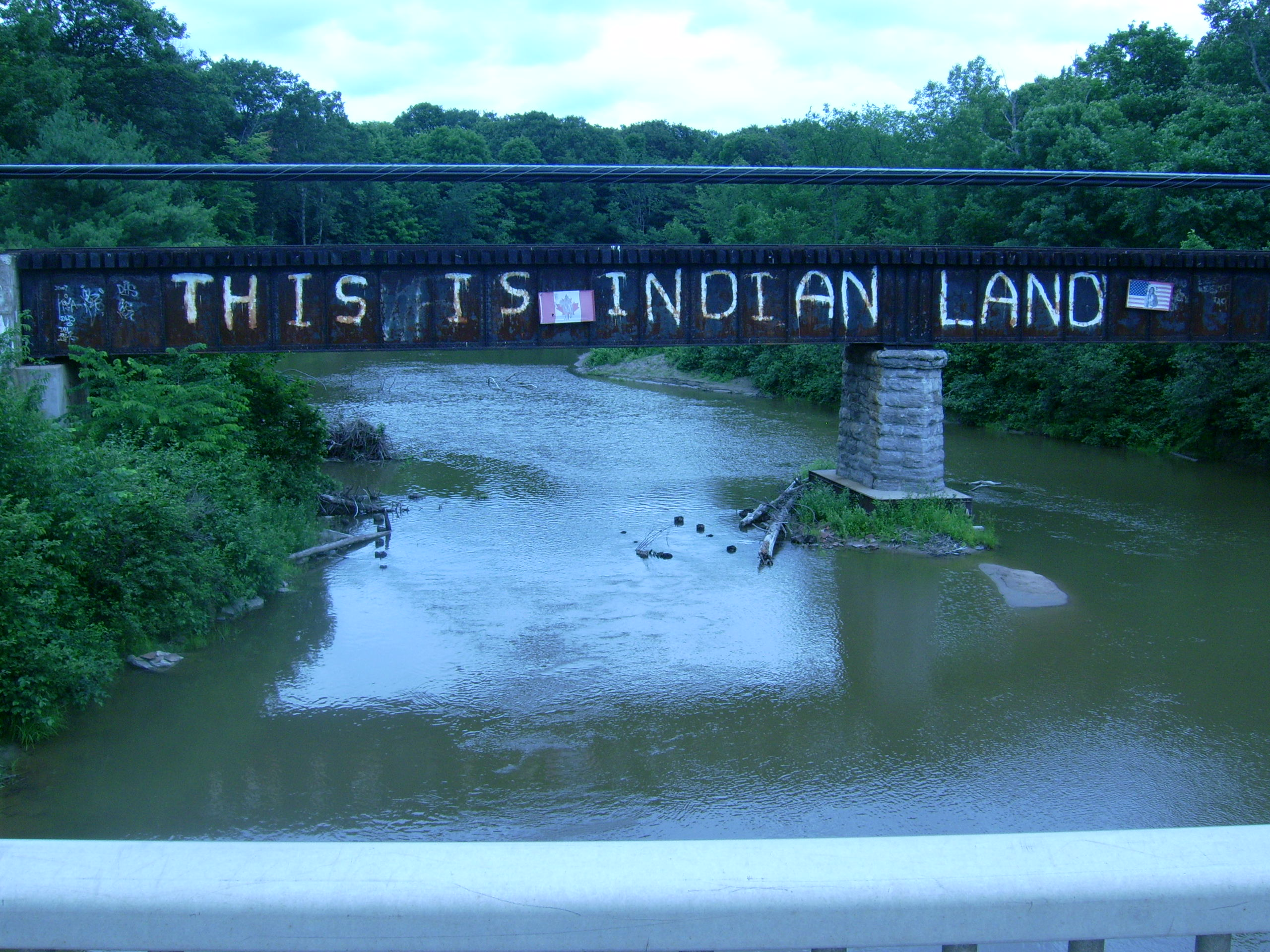 This Is Indian Land graffito on rail bridge, Garden River First Nation.